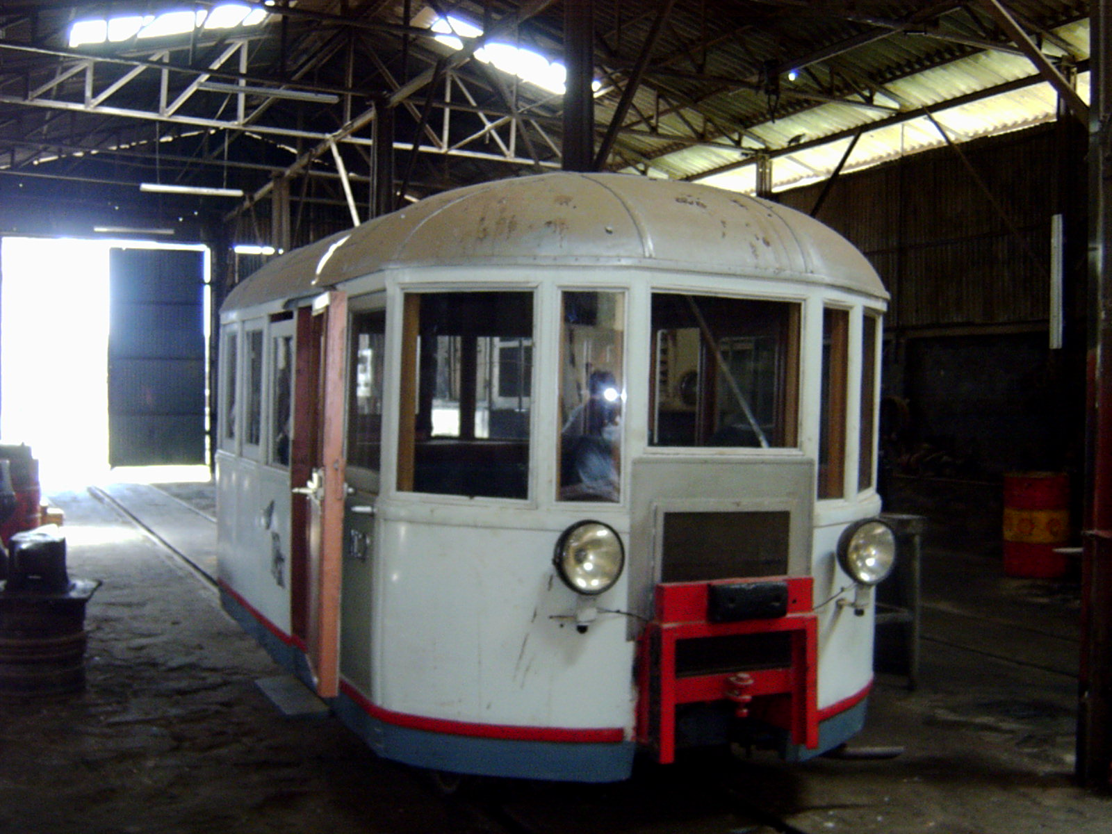 This is a Fiat-built railcar; 2 units were built in 1935; picture was taken in Asmara, Eritrea